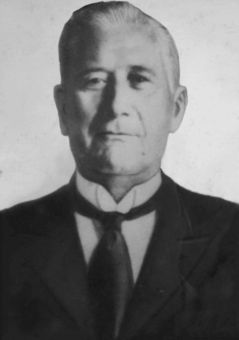 President of Paraguay four times.